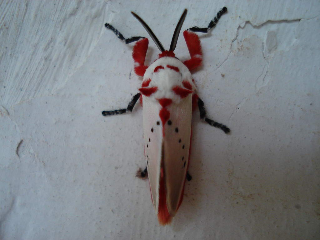 Insect from Antioquia, Colombia ?Trosia sp. (see here): Lepidoptera, Megalopygidae